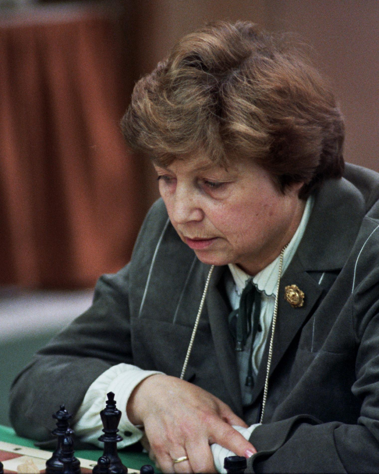 Corry Vreeken, Dortmunder Schachtage 1982, tournament for women, Photographer Gerhard Hund.